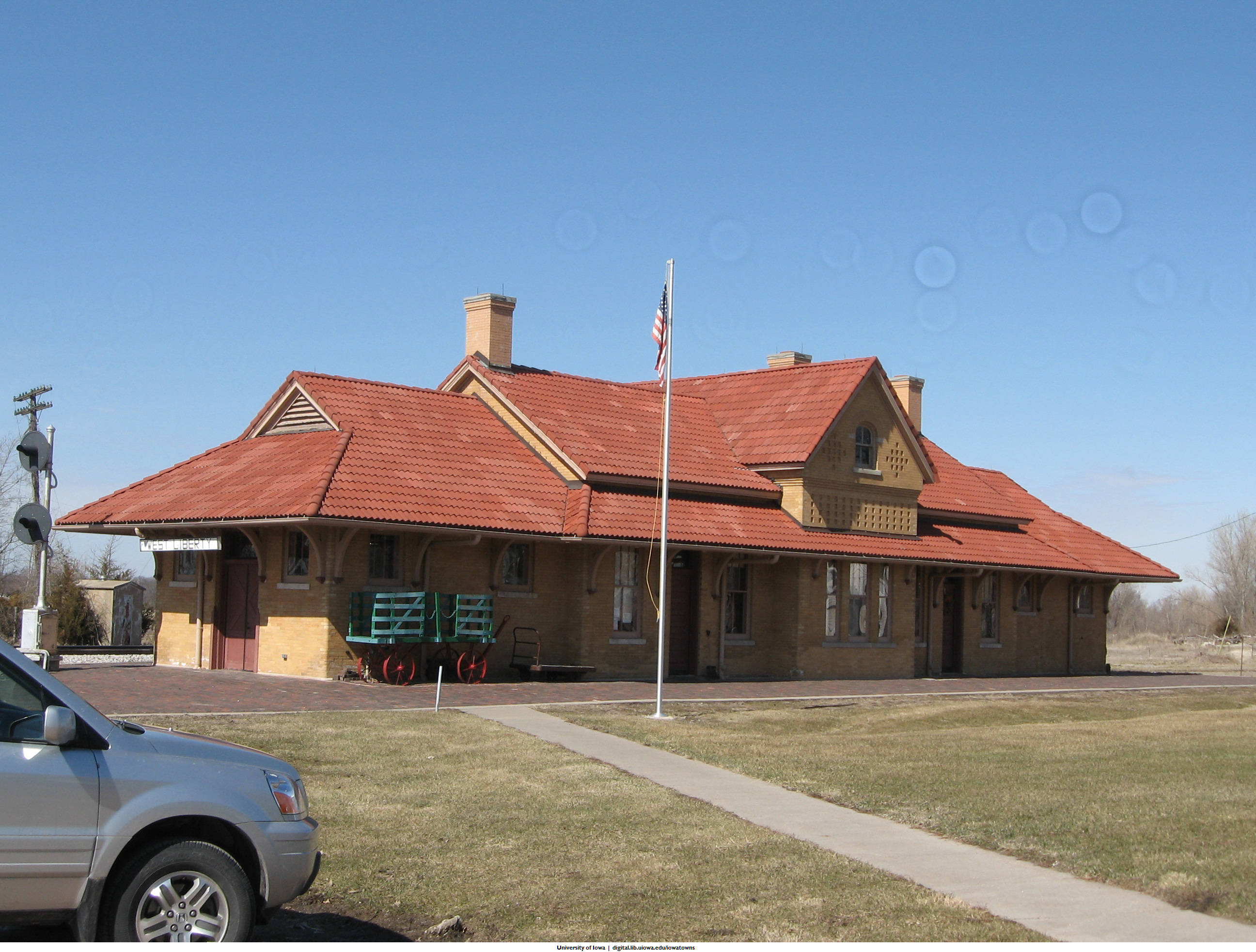 Picture of the train depot in West Liberty.